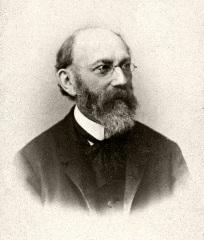 Wilhelm Hertzberg, Ca. 1890